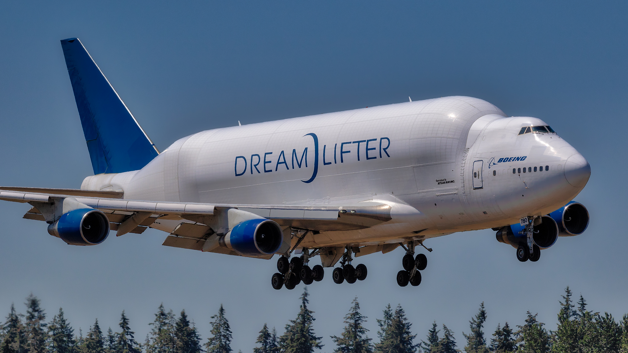 07142018_Boeing Company_B744LCF_N780BA_KPAE_NASEDIT